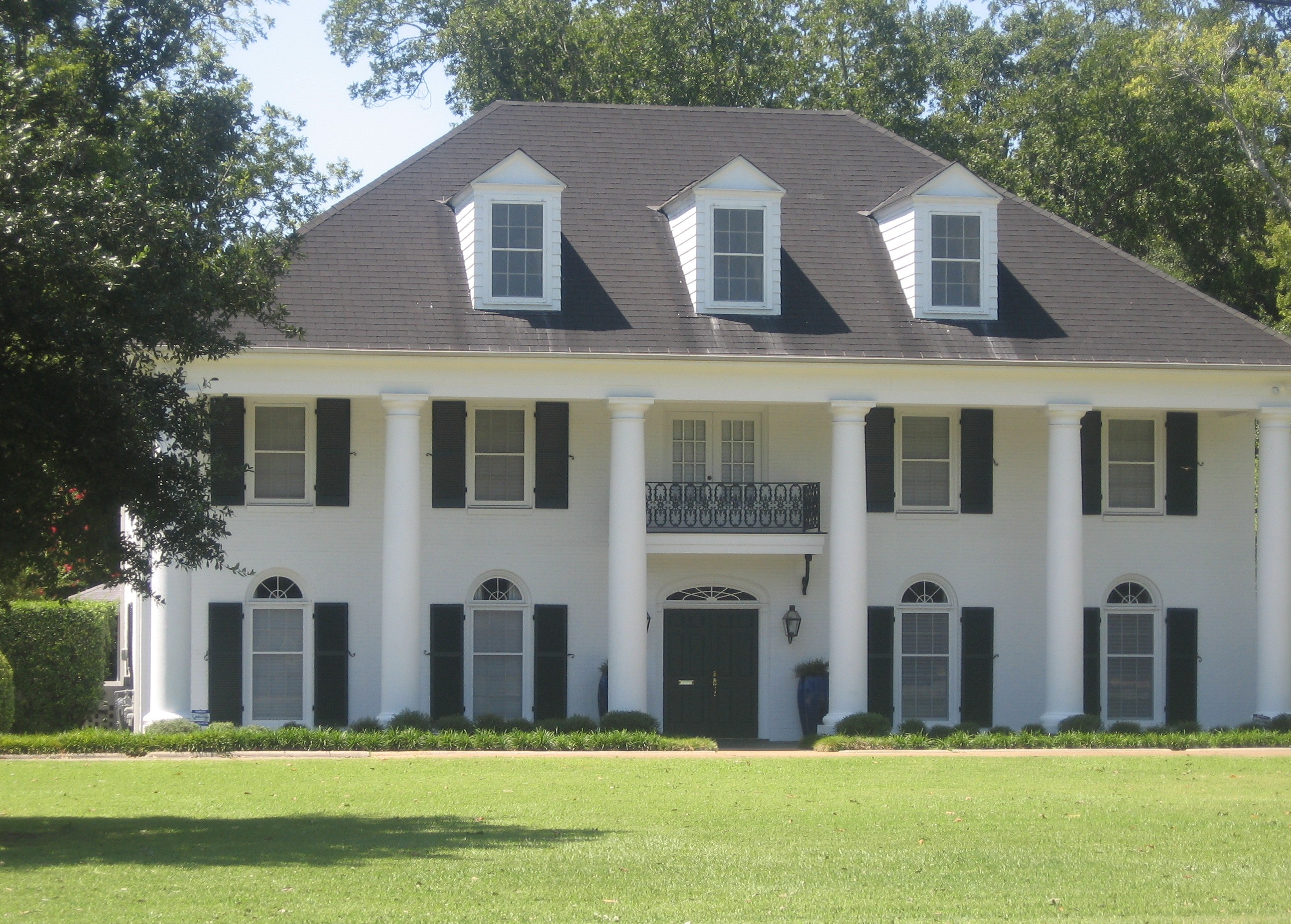 presidents home